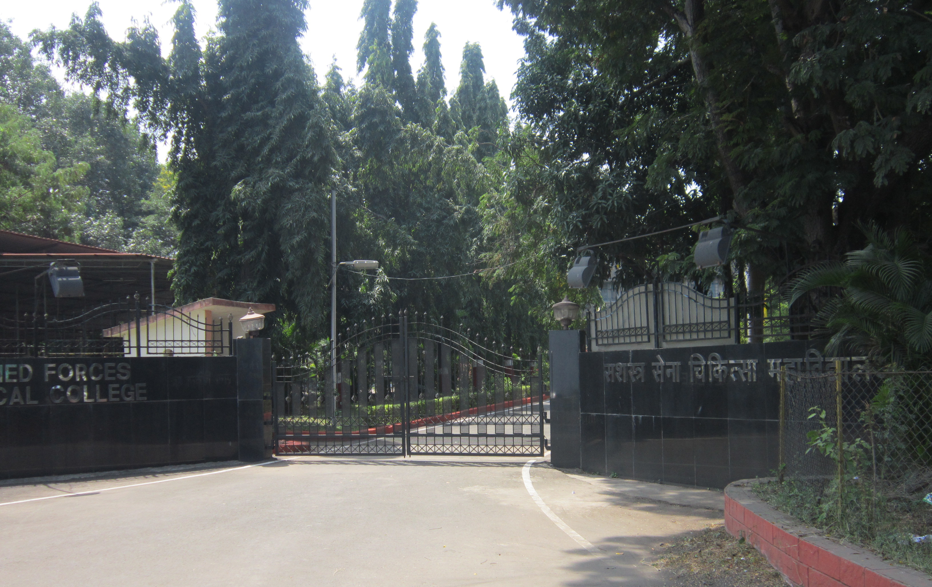 Main entrance of Armed Forces Medical College in Pune.